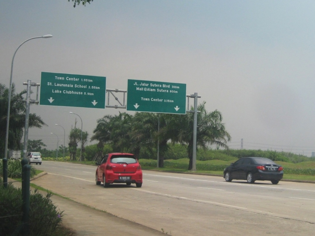 The main road in Alam Sutera, city of Tangerang Selatan, province of Banten, Indonesia. Cars shown are Toyota Yaris 1.5 (NCP91) and Toyota Corolla Altis 1.8 (ZZE142).